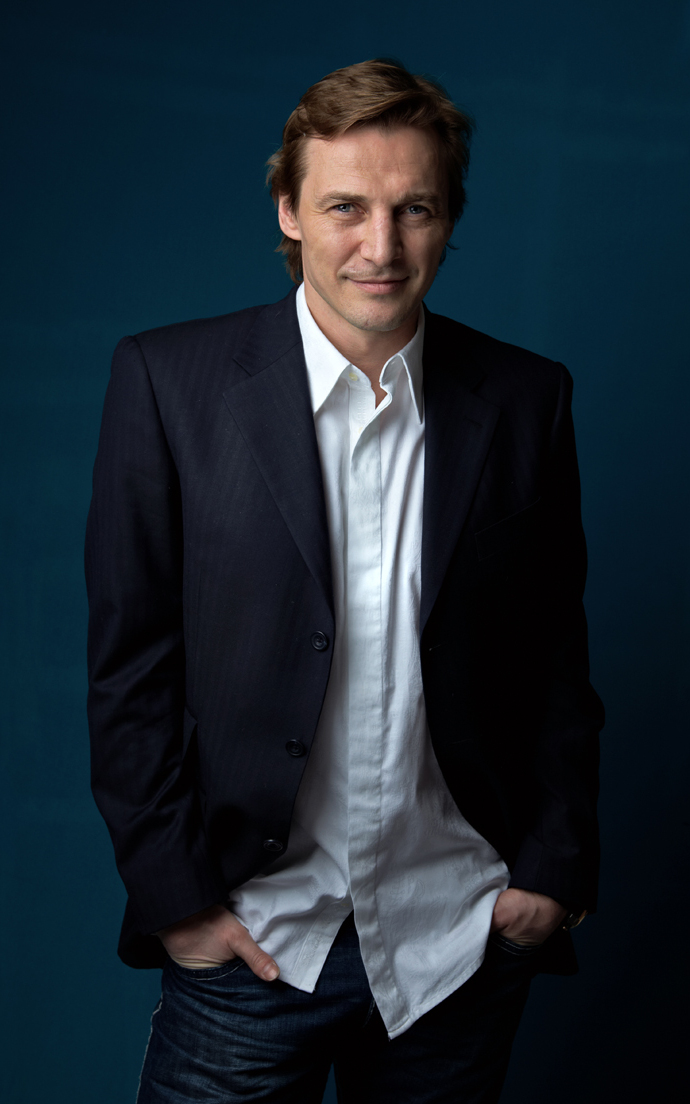 Sergei Fedorov in 2010